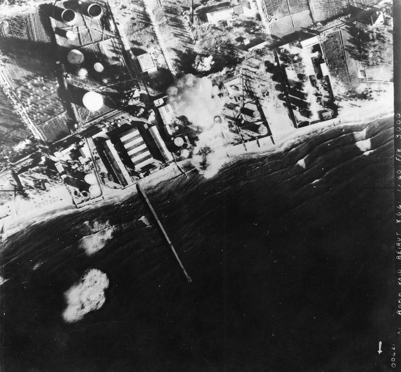 IWM caption : The Royal Dutch Shell oil depot near Beirut comes under a bombing attack from three Bristol Blenheims of No. 11 Squadron RAF, flying from Aqir, Palestine, at the start of Operation EXPORTER.